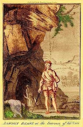 Alexander "Sawney" Bean.